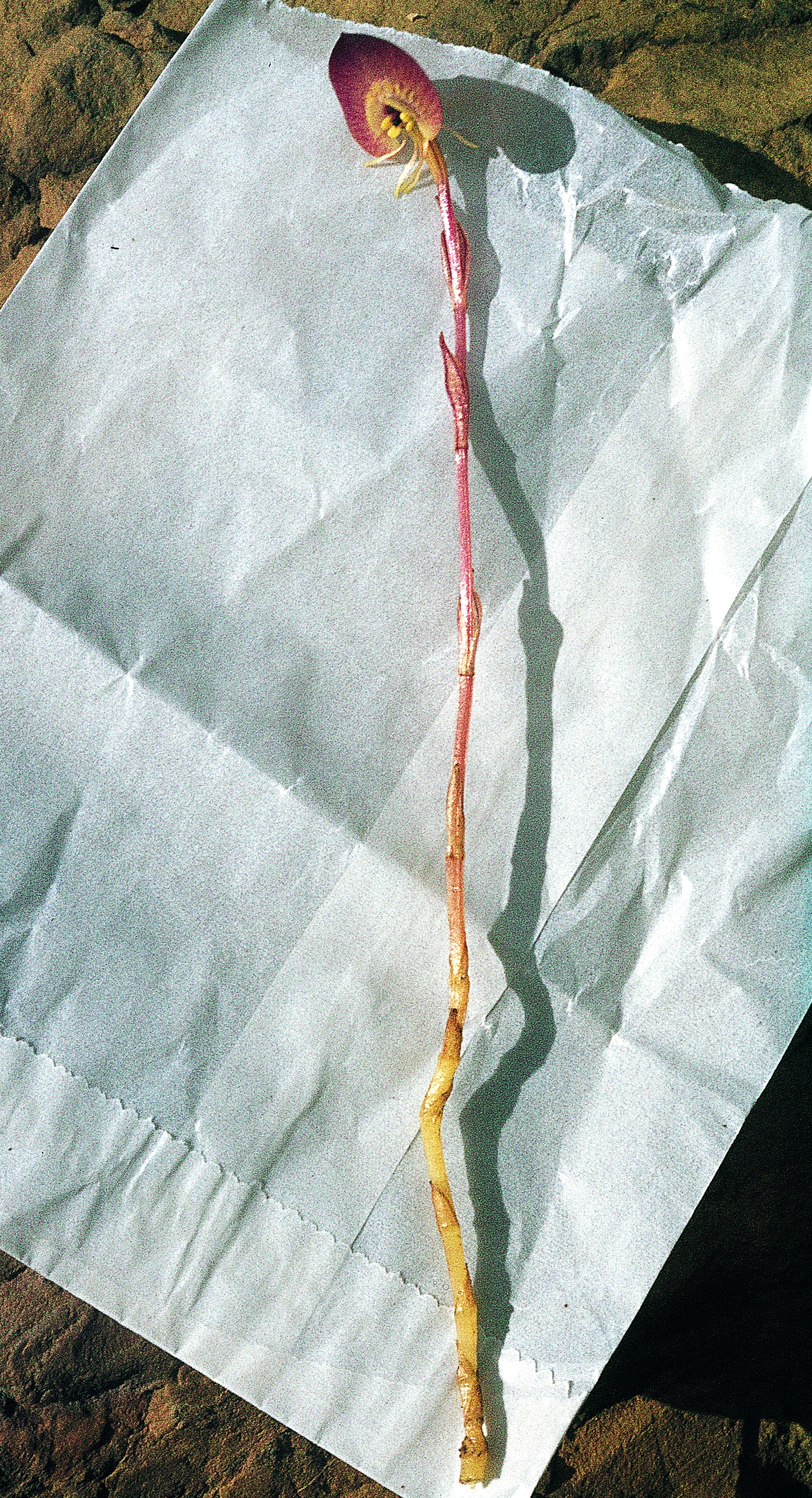 Corsia spec. II (not fully determined). Papua New Guinea, Western Highlands, Minj Subdistrict, Mt. Hagen area. Foothills near Jimmi [Jimi] divide, above Jimi Valley Road to Jimi Divide, mid-montane secondary forest, ca. 1.730 m